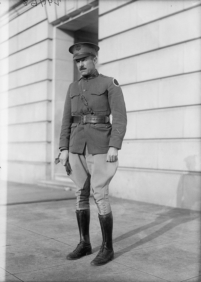 Victor Heintz, congressman from Ohio seen in 1918 when absenting himself from congress to serve in World War I.